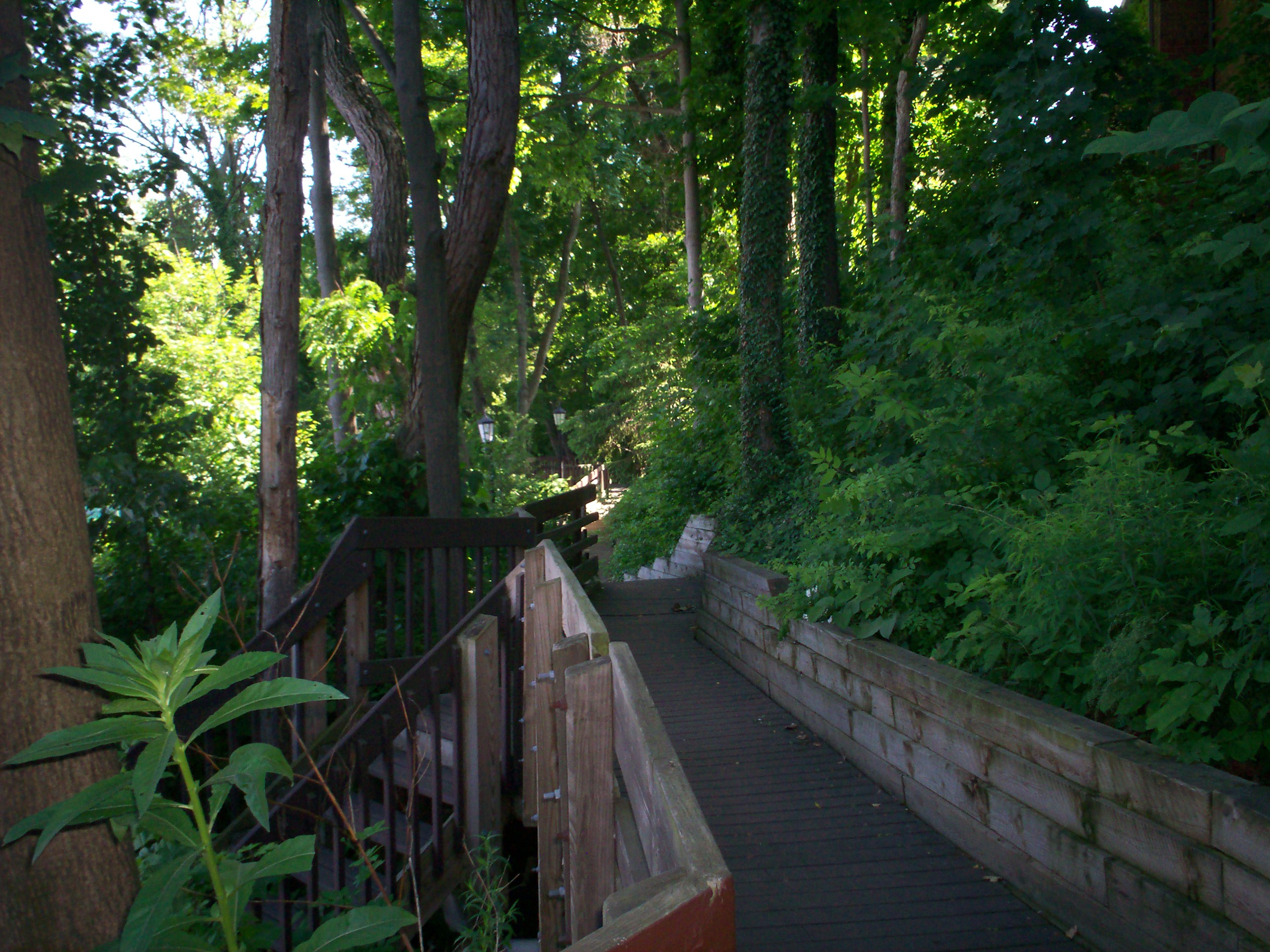 View of boardwalk along the Cuyahoga River in Riveredge Park in Kent, Ohio. The boardwalk follows close to the former mill race, a channel of water which ran from the dam to the two mills south. Today, the area is part of the Kent Industrial District, a listing on the National Register of Historic Places.